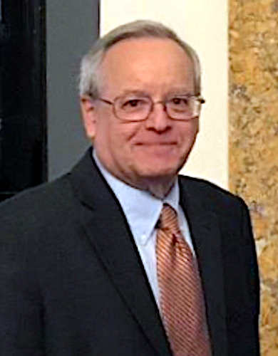 Political commentator Stuart Rothenberg at a 2018 meeting on Capitol Hill between political commentators and Northern Ireland's secretary of state, to discuss the UK-US special relationship and an update on UK priorities for Northern Ireland.